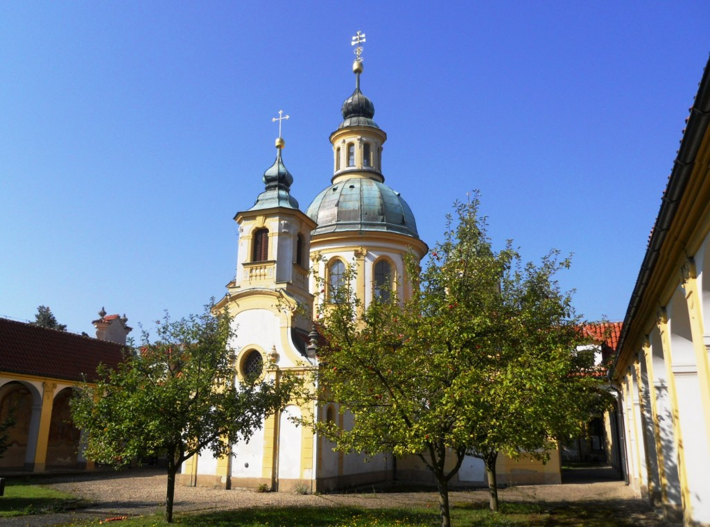 Prague, Bila Hora church from NE